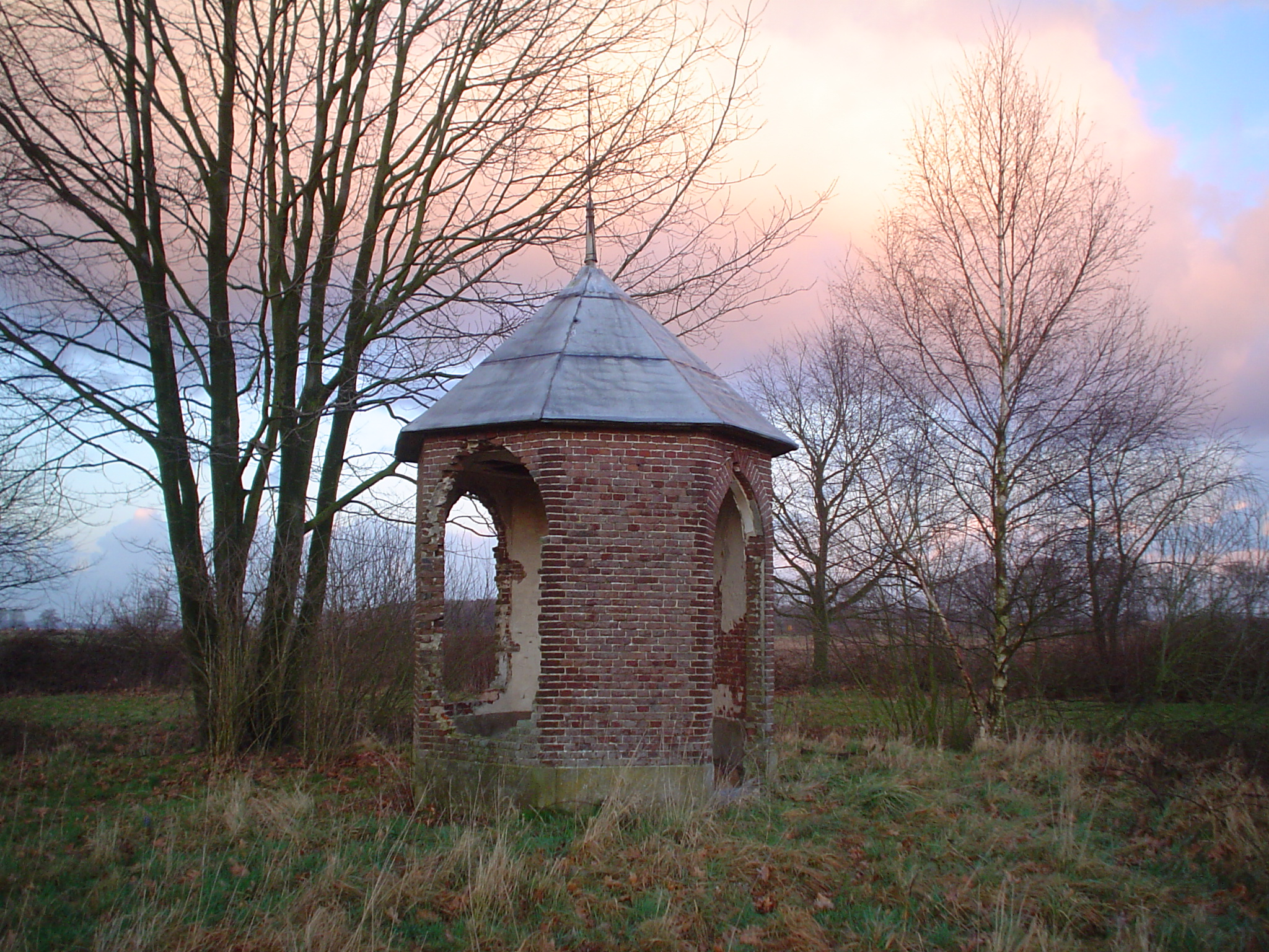 'Het Vijverbergje', a little tower near Oerle. Originally property of a boarding school. Constructed in 1873. Abandoned in 1956.